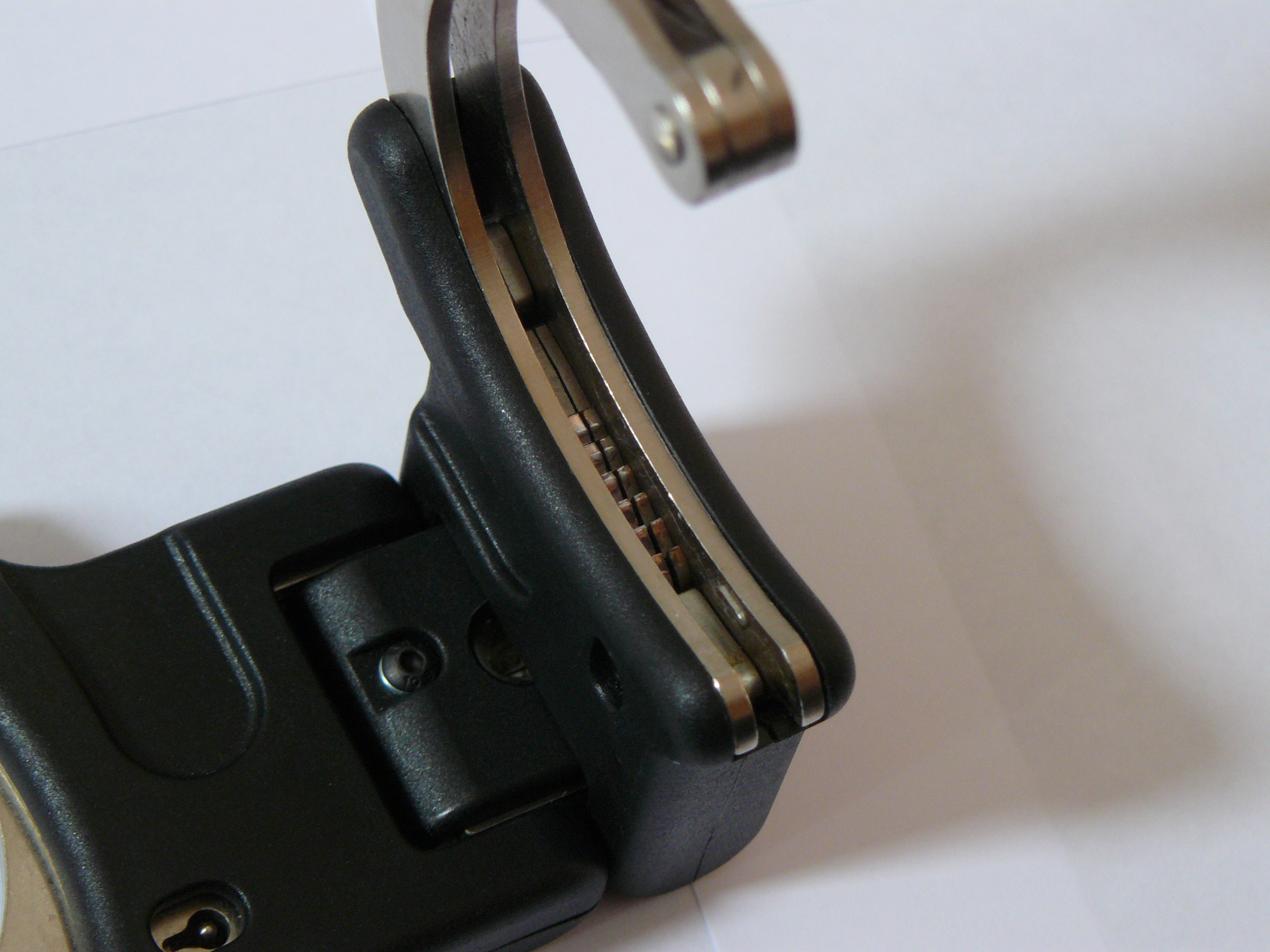 picture showing the TCH 850 handcuff, demonstrating the ratchet bars that hold the rotating arm (3 bars with 6 teeth each)